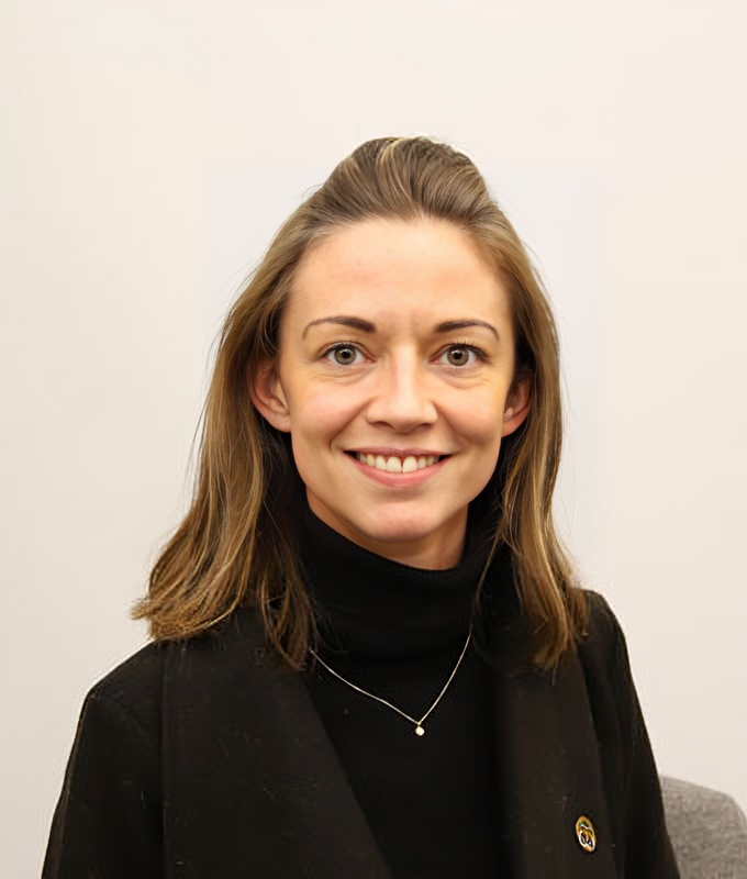 Irish politician Holly Cairns of the Social Democrats, taken in 2020